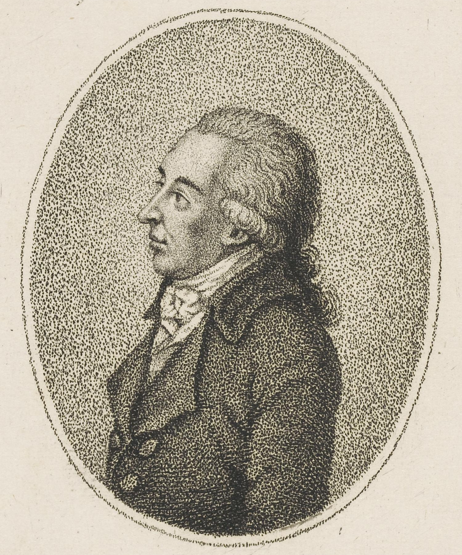 Depicted person: Friedrich Wilhelm Rust